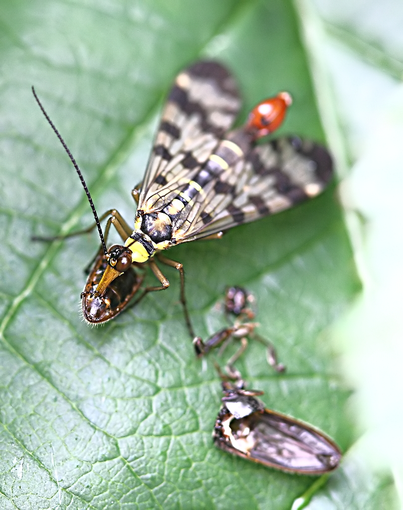 Male scorpionfly feeding on a dead insectMännliche_Skorpionsfliege verzehrt totes Insekt